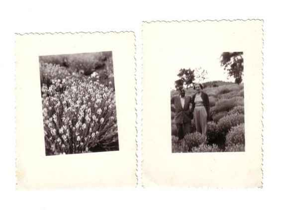 Old photo of farmes of the lavender of Tihany